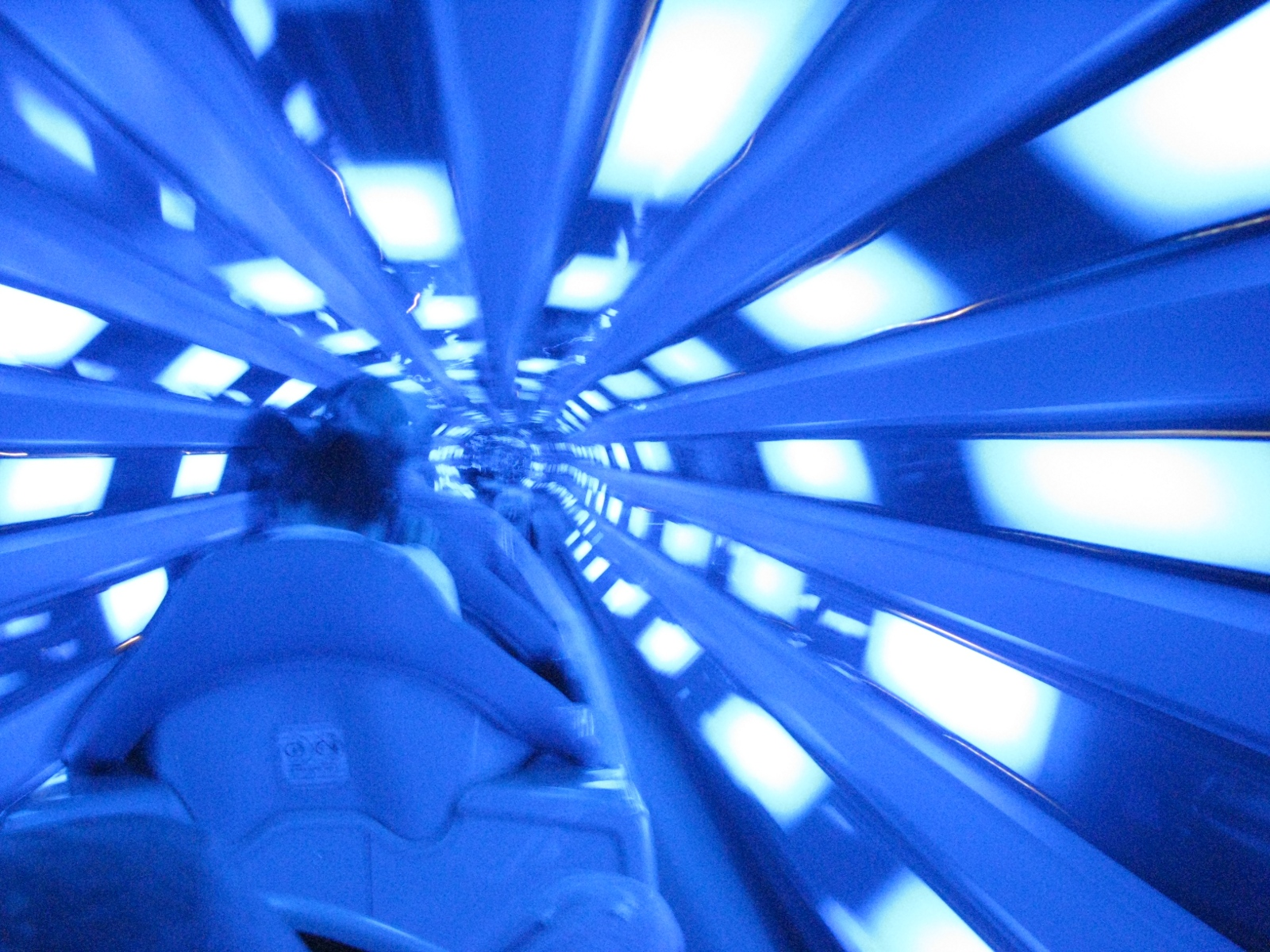 The initial "launch" tunnel on Space Mountain at Magic Kingdom